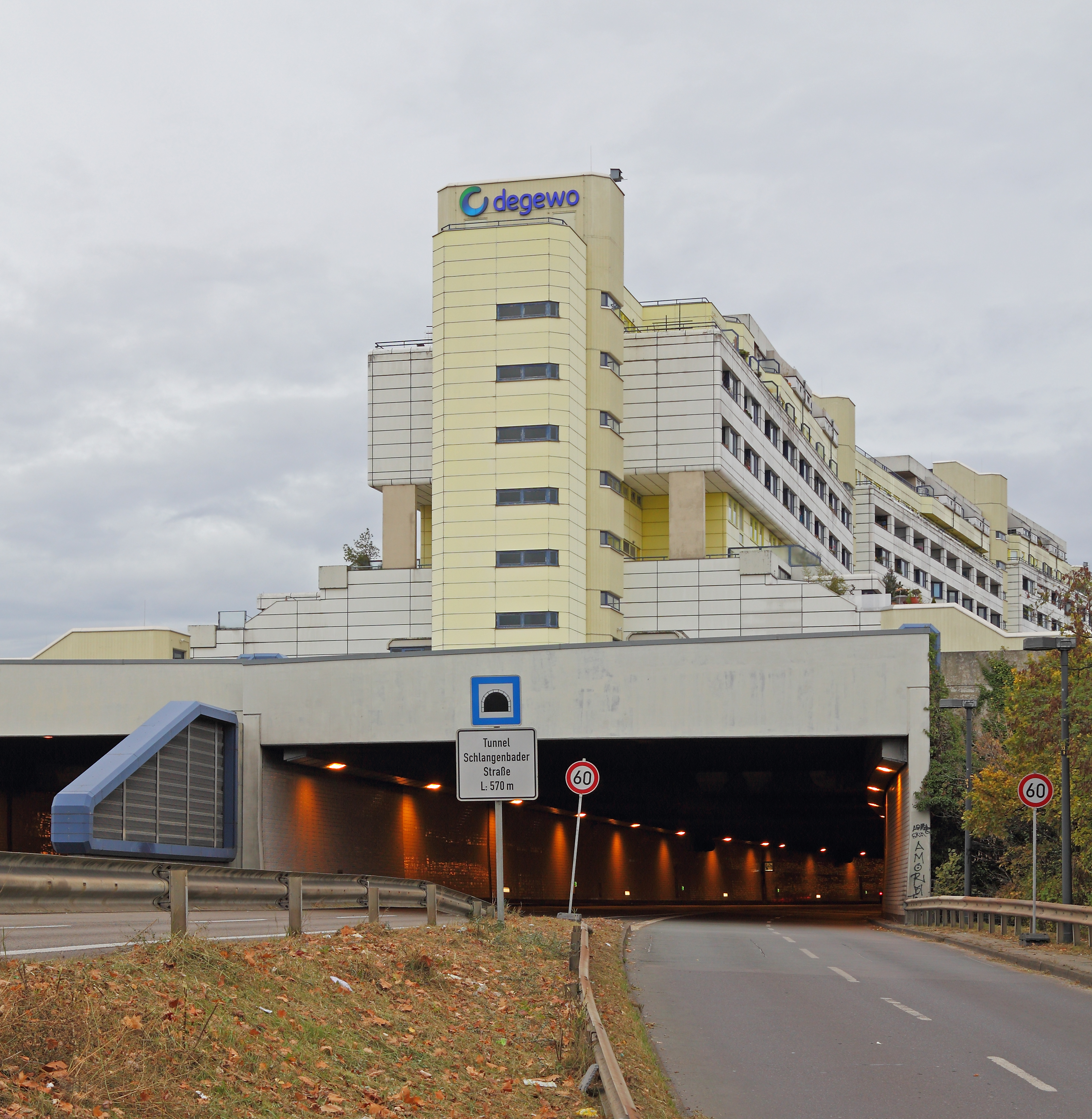 Berlin-Wilmersdorf Schlangenbader Str. Highway tunnel within a large apartment house. In Berlin, people call this object «Schlange» («snake»).